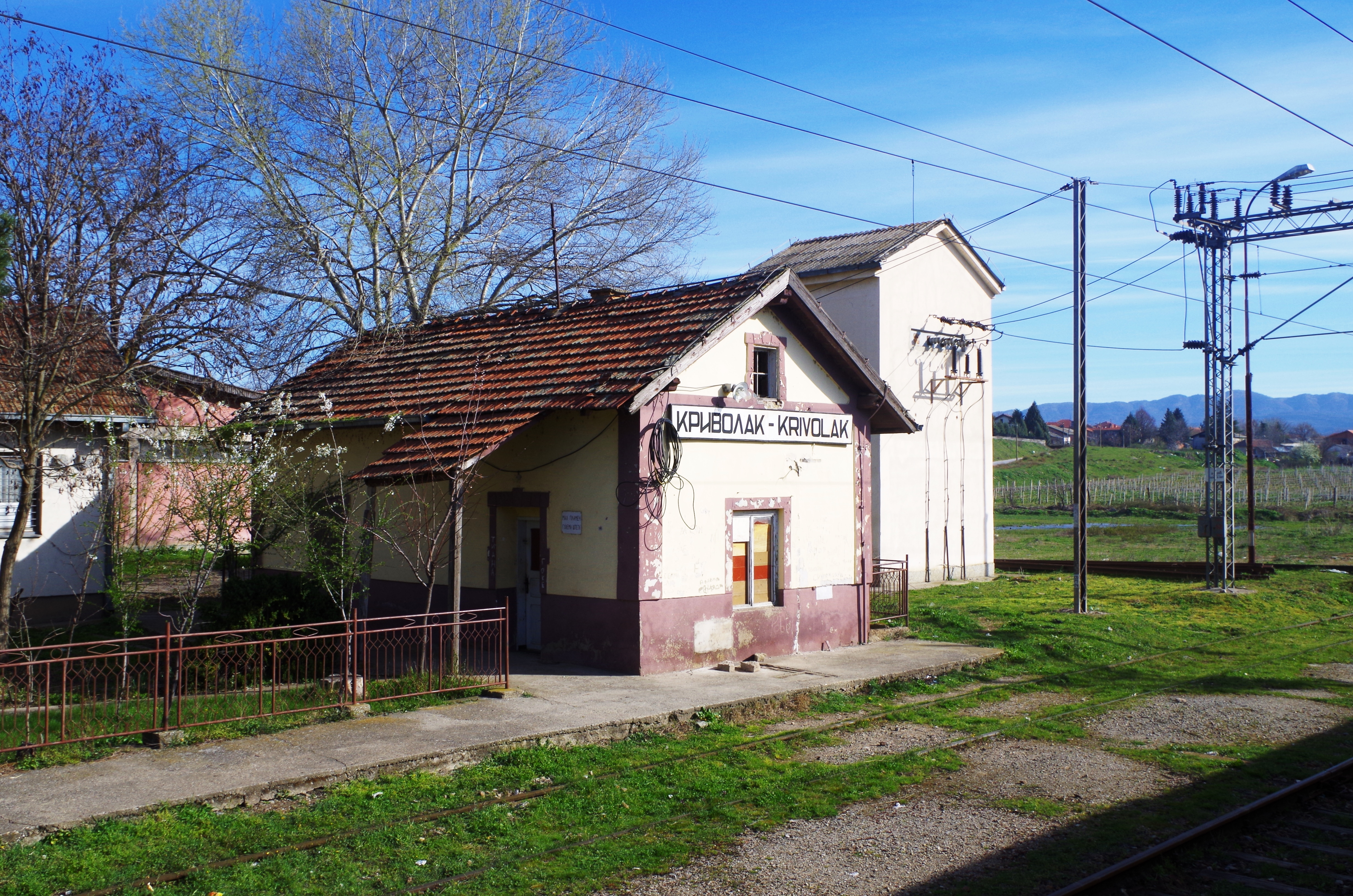 Train station Krivolak